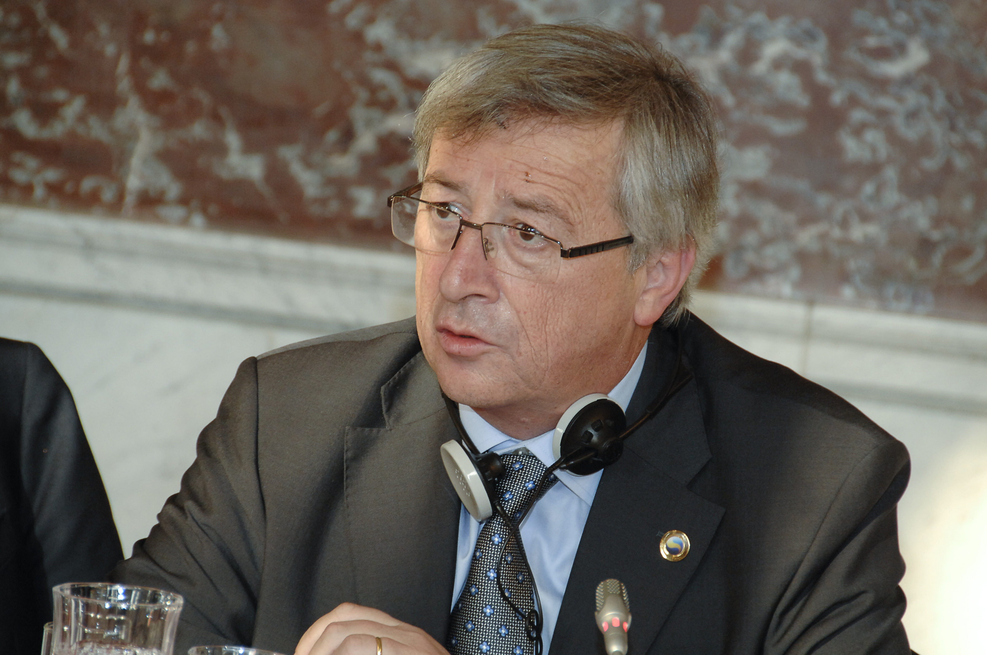 EPP Summit 29 October 2009